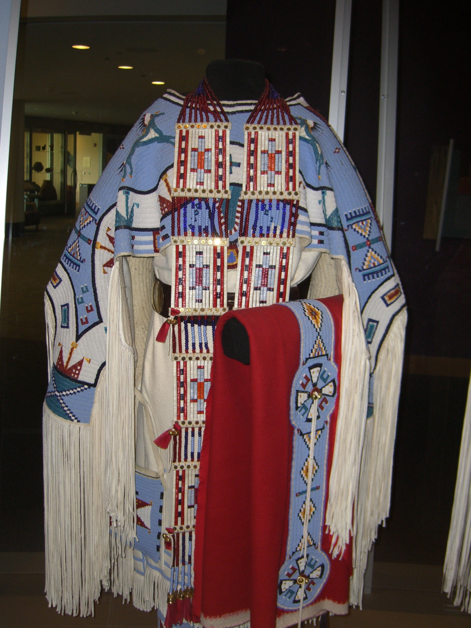 Made by Joyce Growing Thunder Fogarty and Juanita Growing Thunder Fogarty (Assiniboine/Sioux) in 2006.